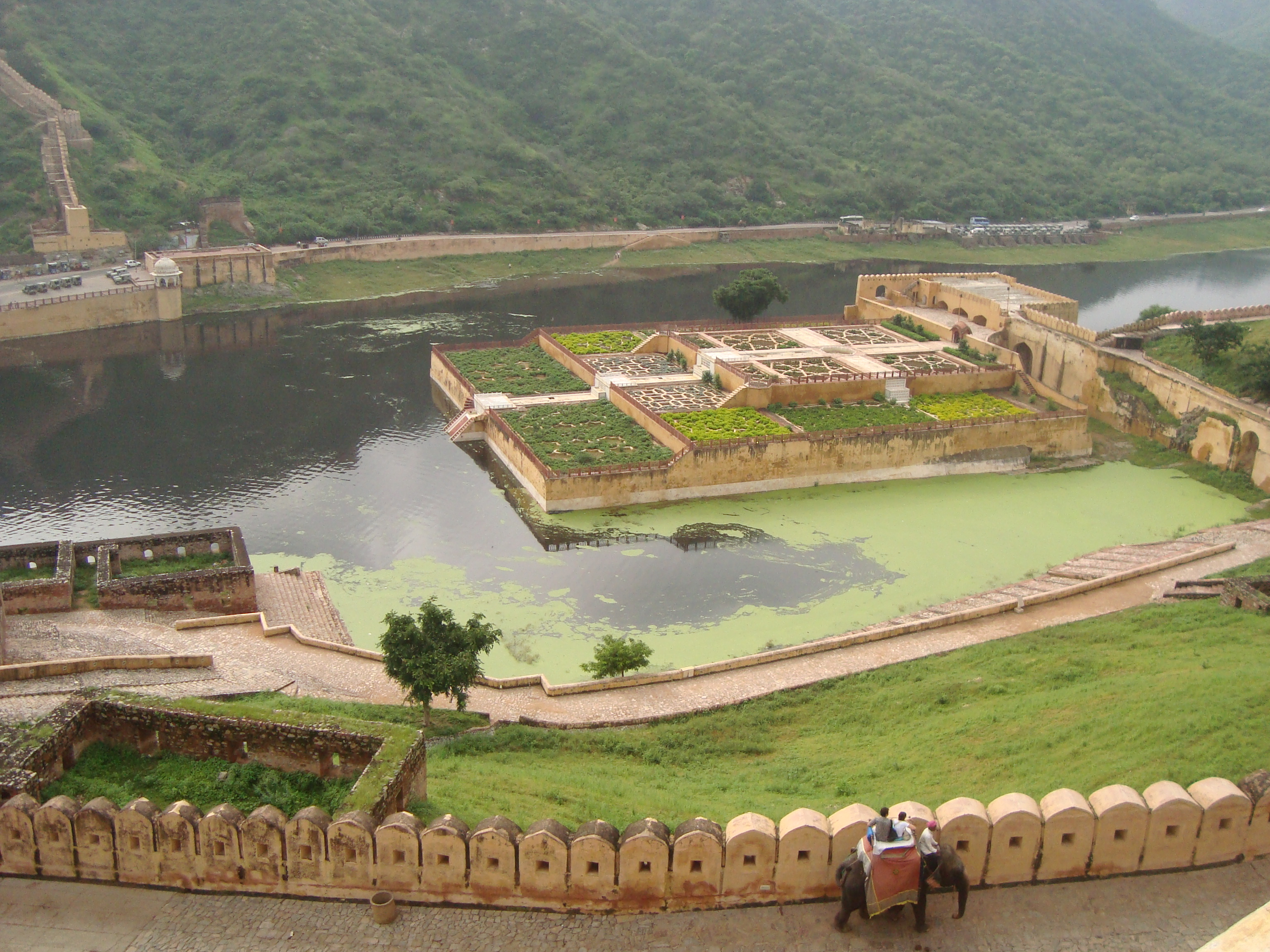 Mahota Lake adjacent (eastern side) to Amber Fort.